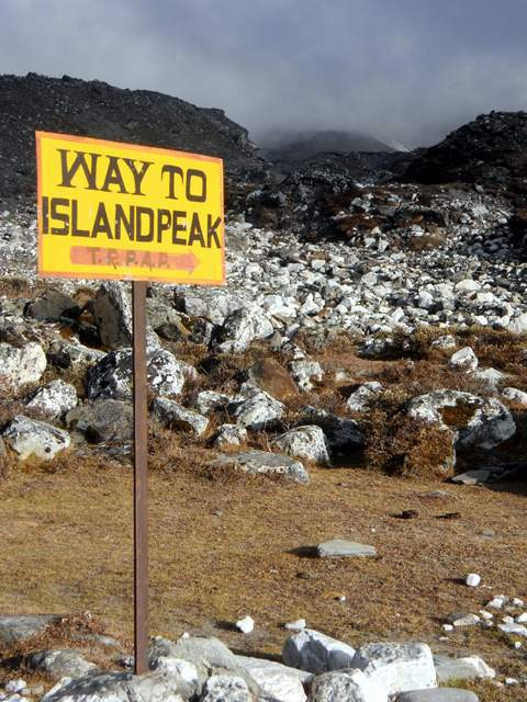 Sign indicating the route to Imja Tse high camp. Photo by Alonzo Lyons.